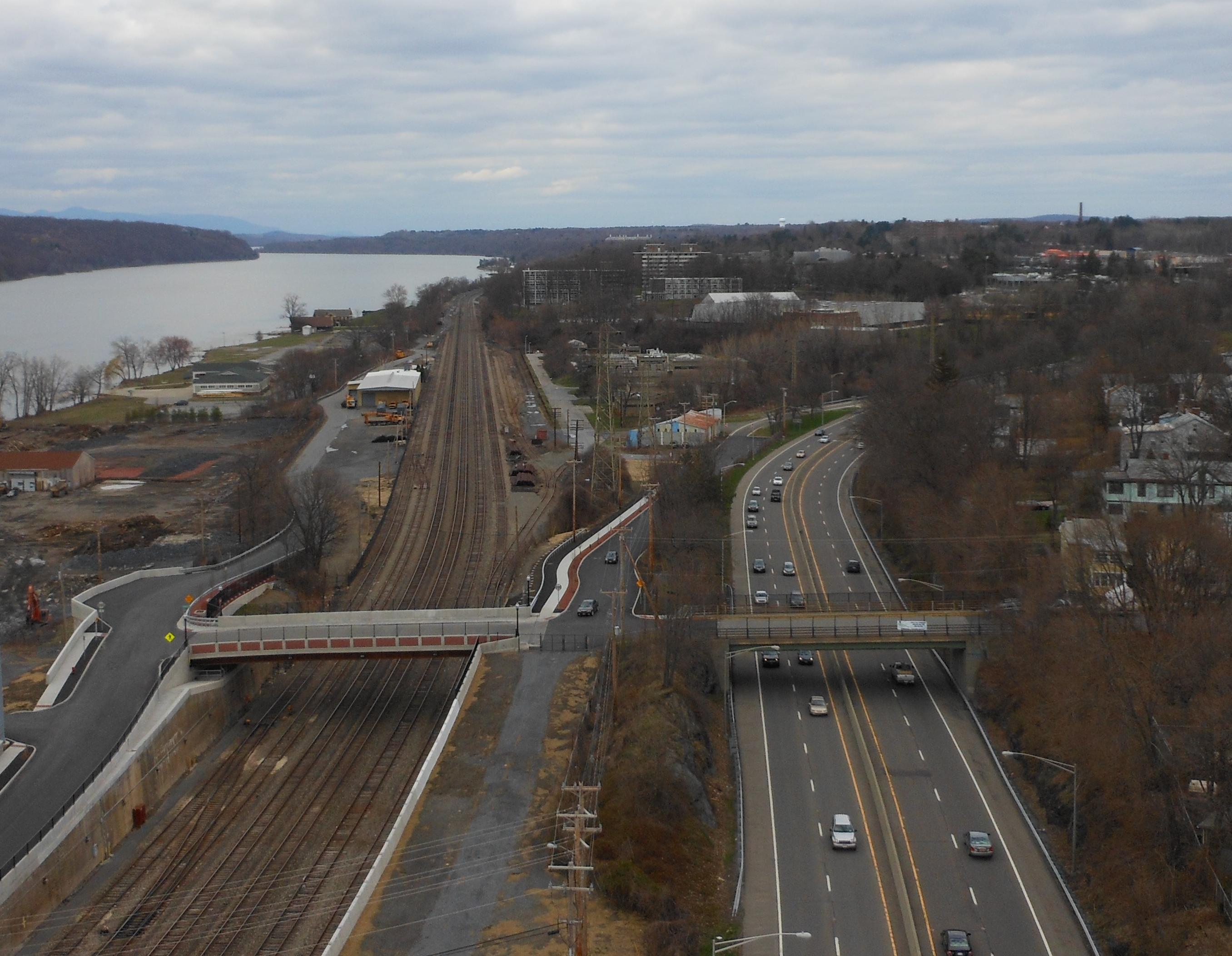 Highway and Railroad in Poughkeepsie, New York